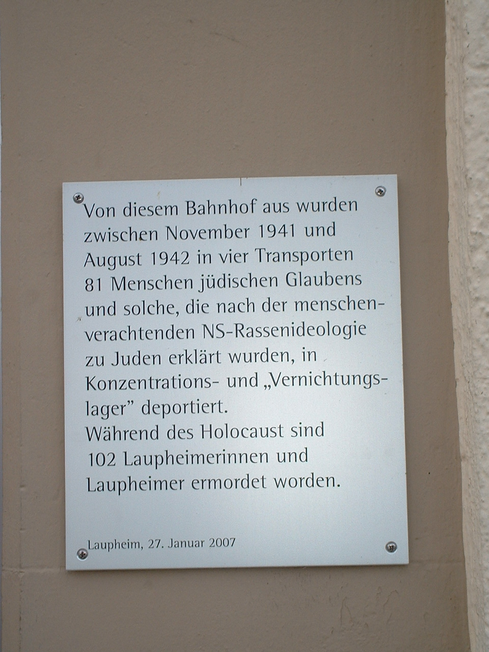 Memorial plaque for deported Jews from Laupheim at Laupheim-West station